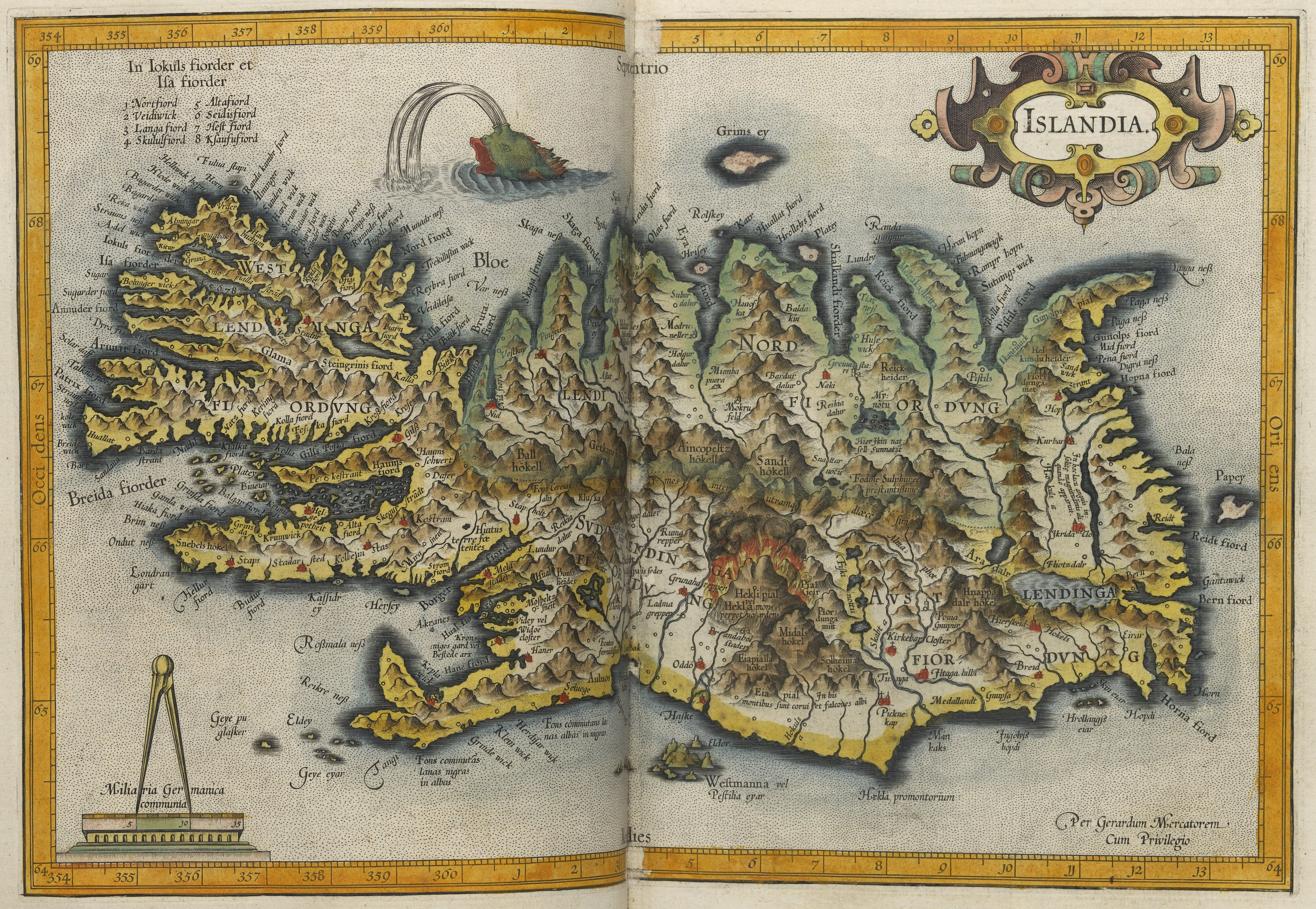 Full record available at: This image is available from the University of Edinburgh Image Collections This item is part of University of Edinburgh Image Collections, gal~5~5~150309~162638View the image in Wikimedia's IIIF-compliant Mirador viewer which enables high resolution zooming.View the image in its original context in the University of Edinburgh Image Collections Catalogue This file was uploaded as part of a GLAMWiki partnership with the University of Edinburgh. This tag does not indicate the copyright status of the attached work. A normal copyright tag is still required. See Commons:Licensing.